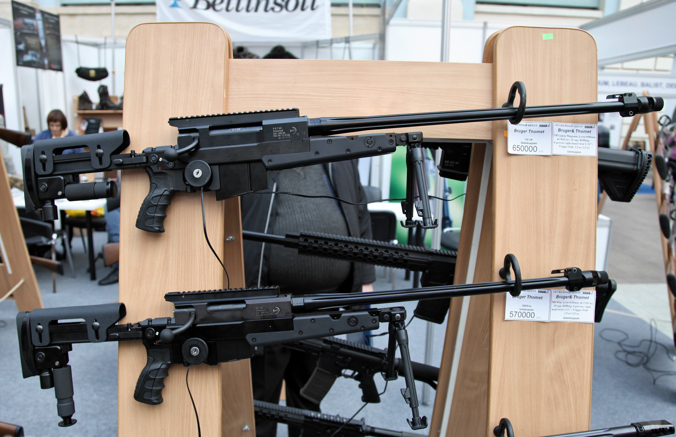 Brügger & Thomet APR .338 LM and .308 Win